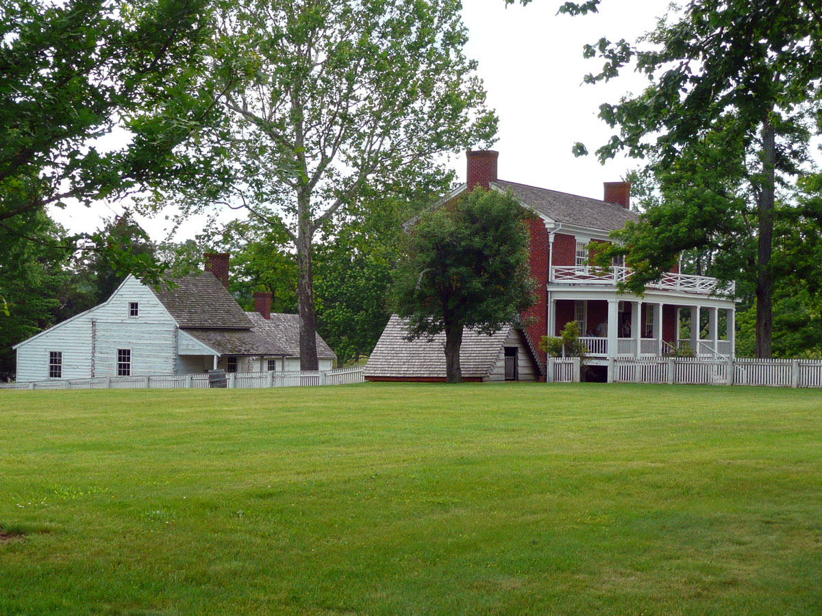 Photograph of the (reconstructed) McLean House, Appomattox Court House, Virginia, site of the surrender of Gen. Robert E. Lee at the end of the American Civil War.